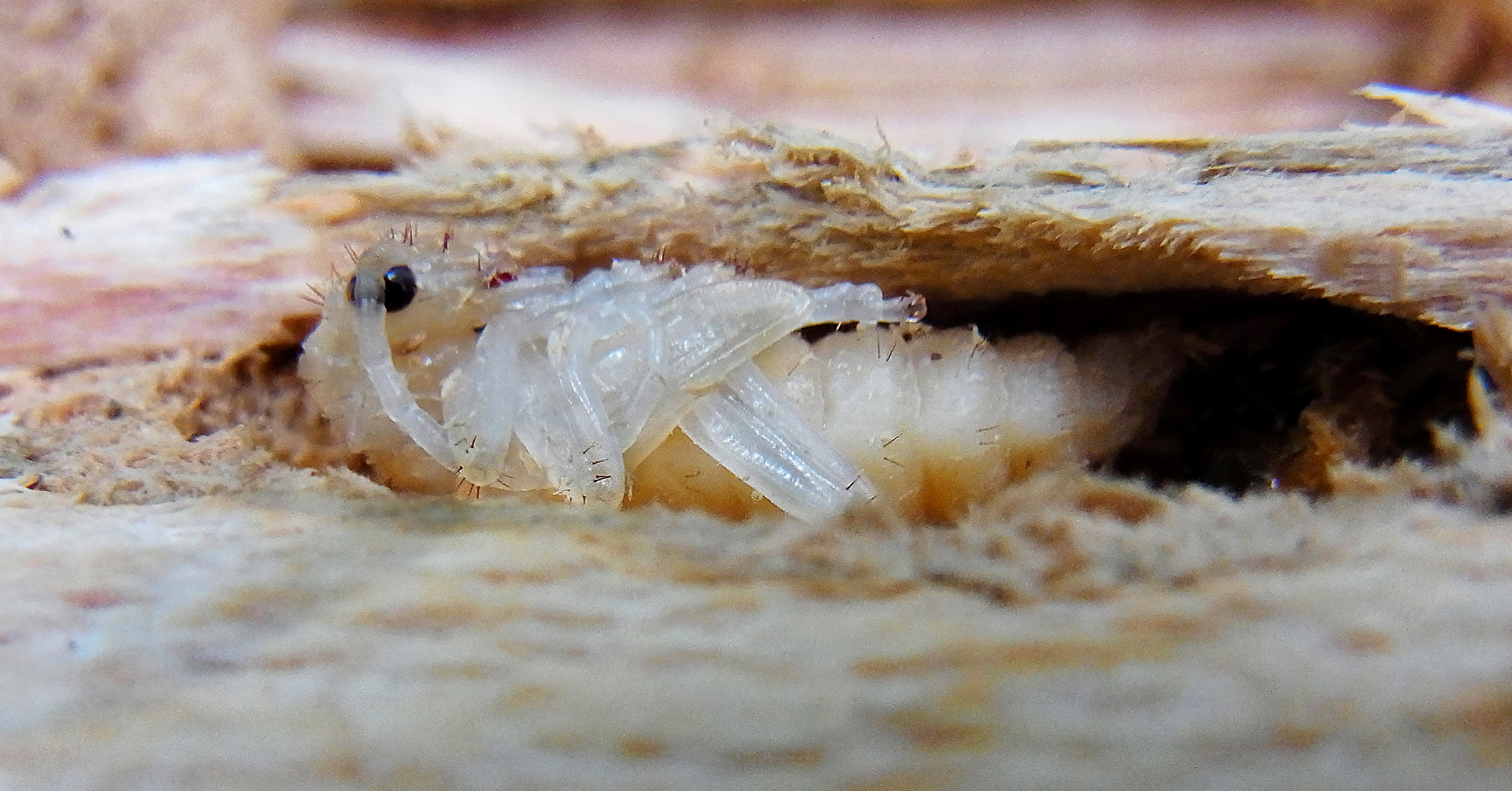 Pupa of Rhagium bifasciatum in stem of Abies from Northern Spain about 30 km northeast of Pamplona